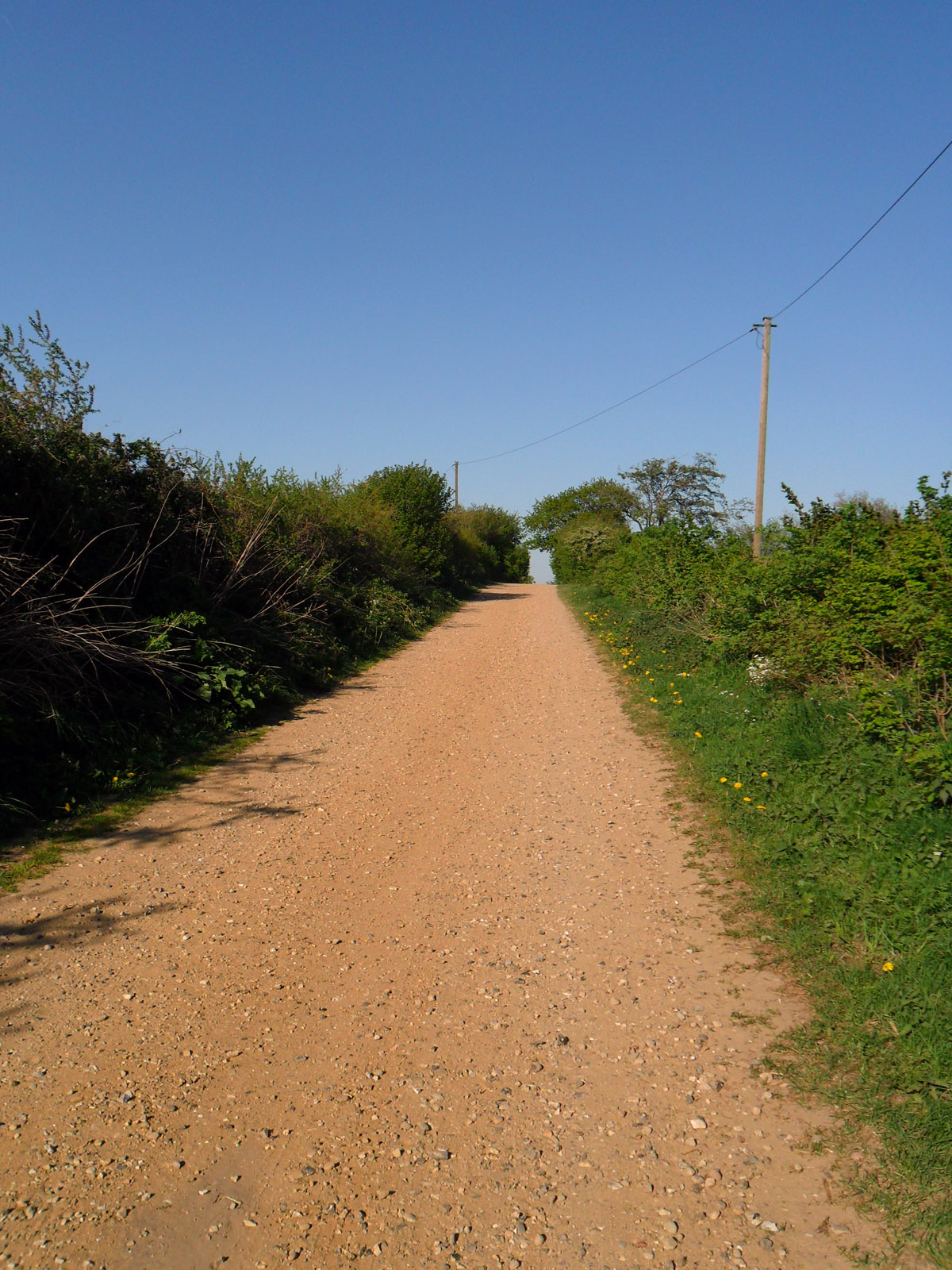 Dirt Road in Ramstedt (Schleswig-Holstein, Germany).